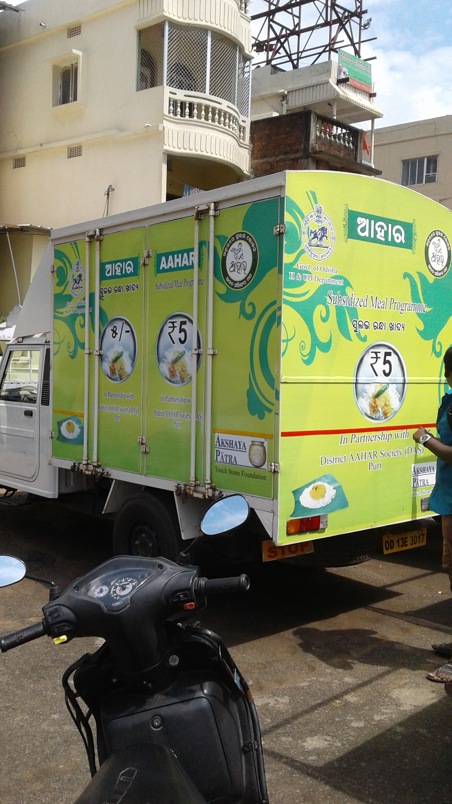 ଓଡ଼ିଆ: the vehicle is transporting ahara